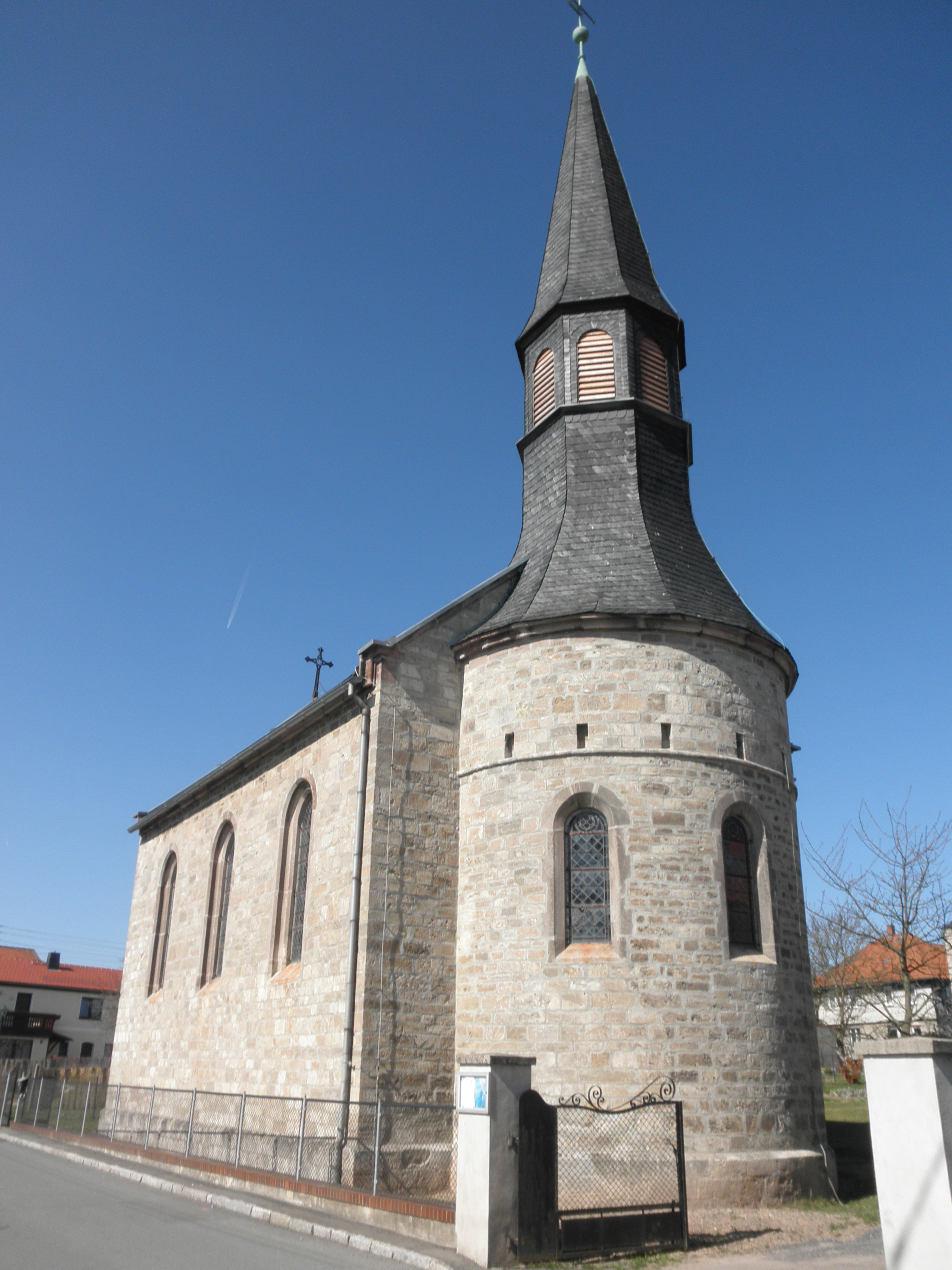 Church in Peuschen in Thuringia